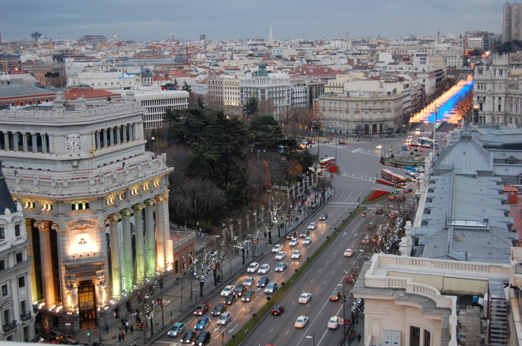 View of Calle de Alcalá (street) in Madrid (Spain) from Círculo de Bellas Artes' flat roof.